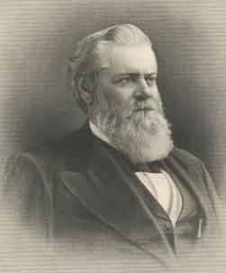 Kentucky Congressman Oscar Turner